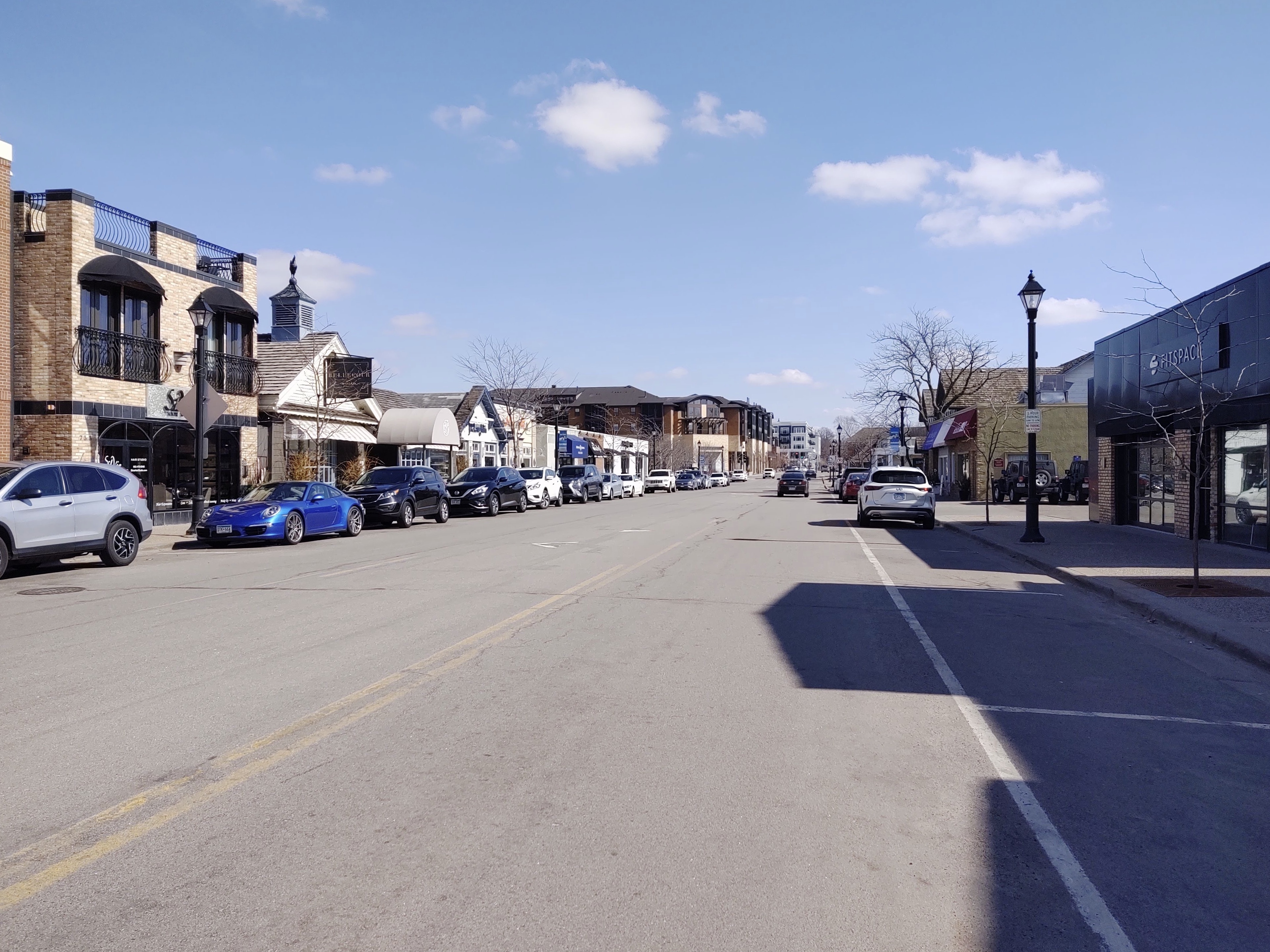 Looking east